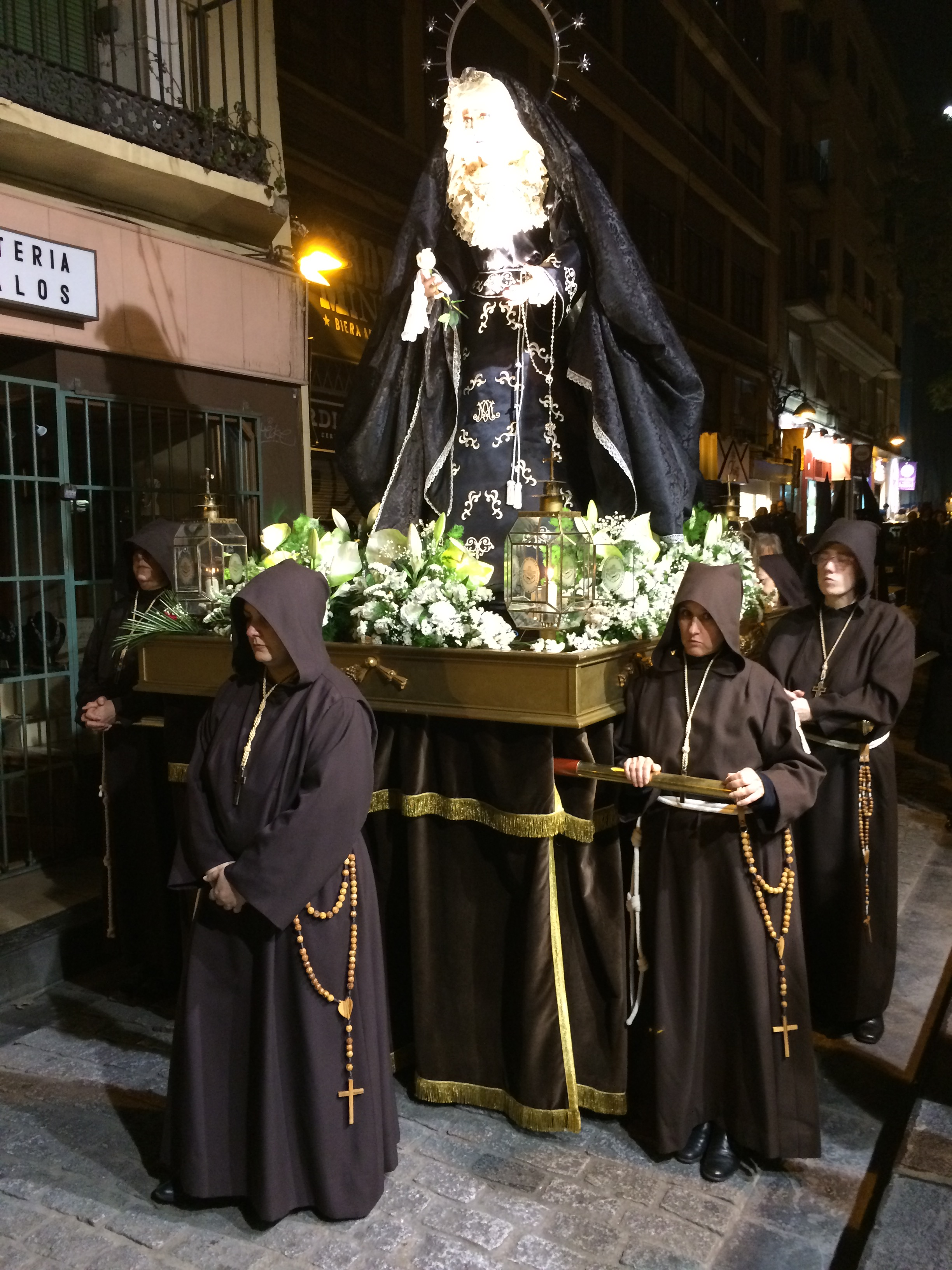 Holly Week procession in 2017 in Zaragoza (Spain)